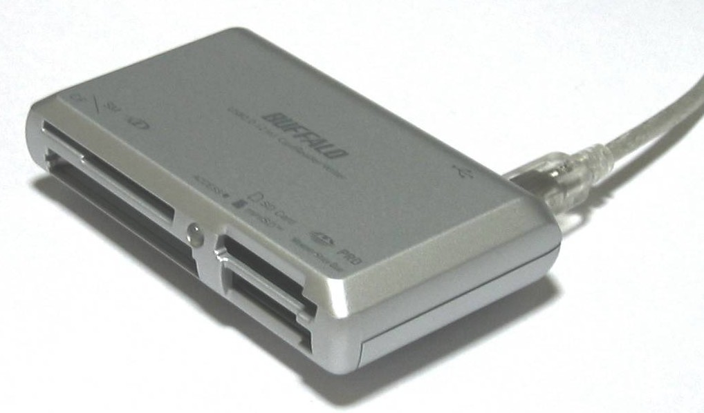 This is a memory card reader / writer that was made by BUFFALO. It can read and write a lot of memory cards: Compact Flash, Microdrive, Memory Stick, Memory Stick PRO, SD, MMC, Smart Media, xD.